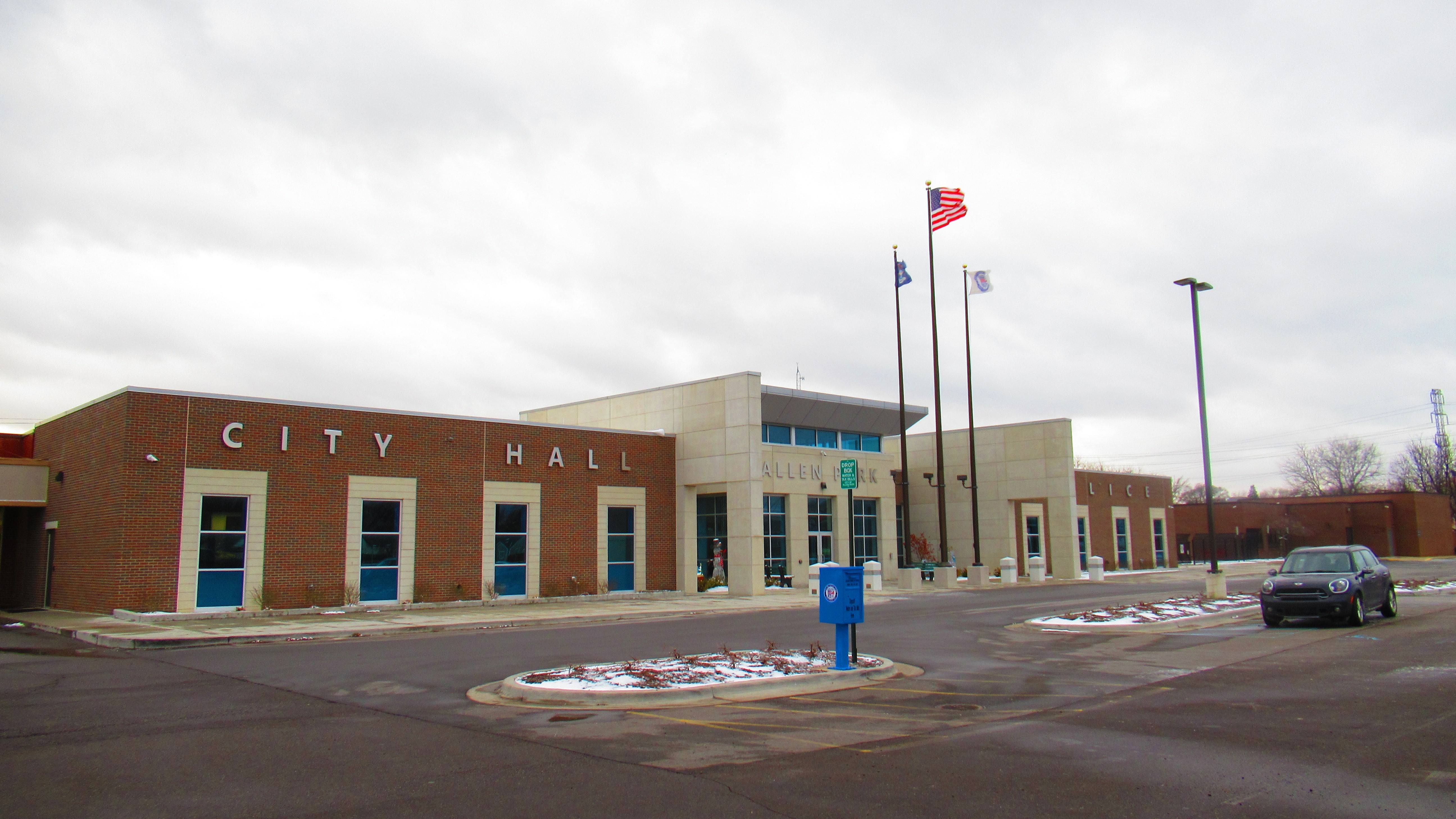 Allen Park City Hall and Police Department